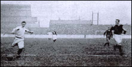 Manchester City against Newton Heath in 1898.